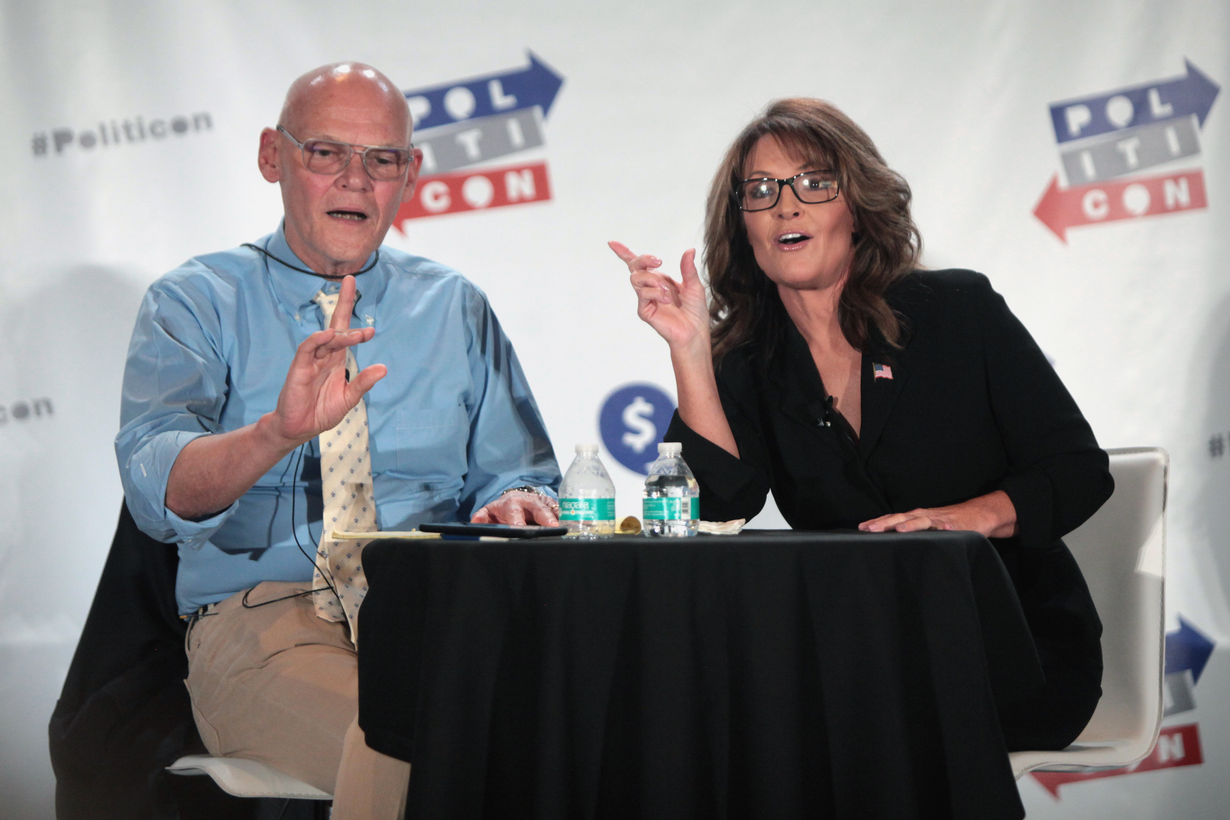 James Carville and former Governor Sarah Palin speaking at the 2016 Politicon at the Pasadena Convention Center in Pasadena, California.